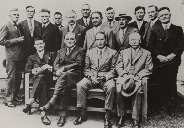 Third Bruce Australian Federal Ministry meets late in the 1920's.